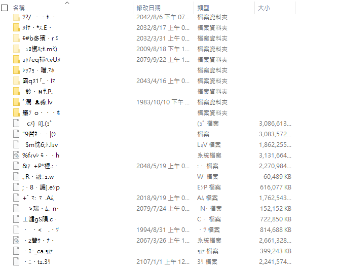 Computer Virus rename the files randomly for the names and extensions.